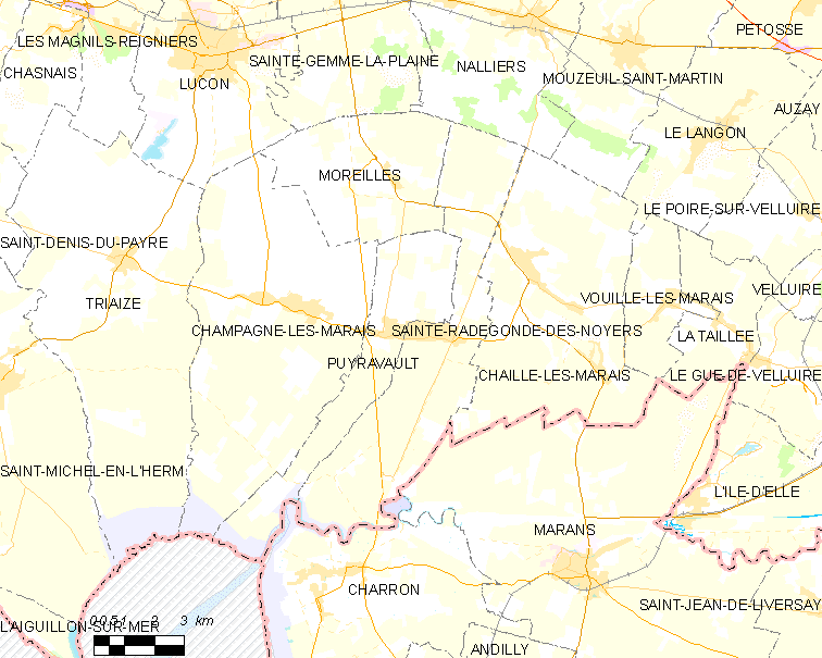 Map of French municipality Sainte-Radégonde-des-Noyers